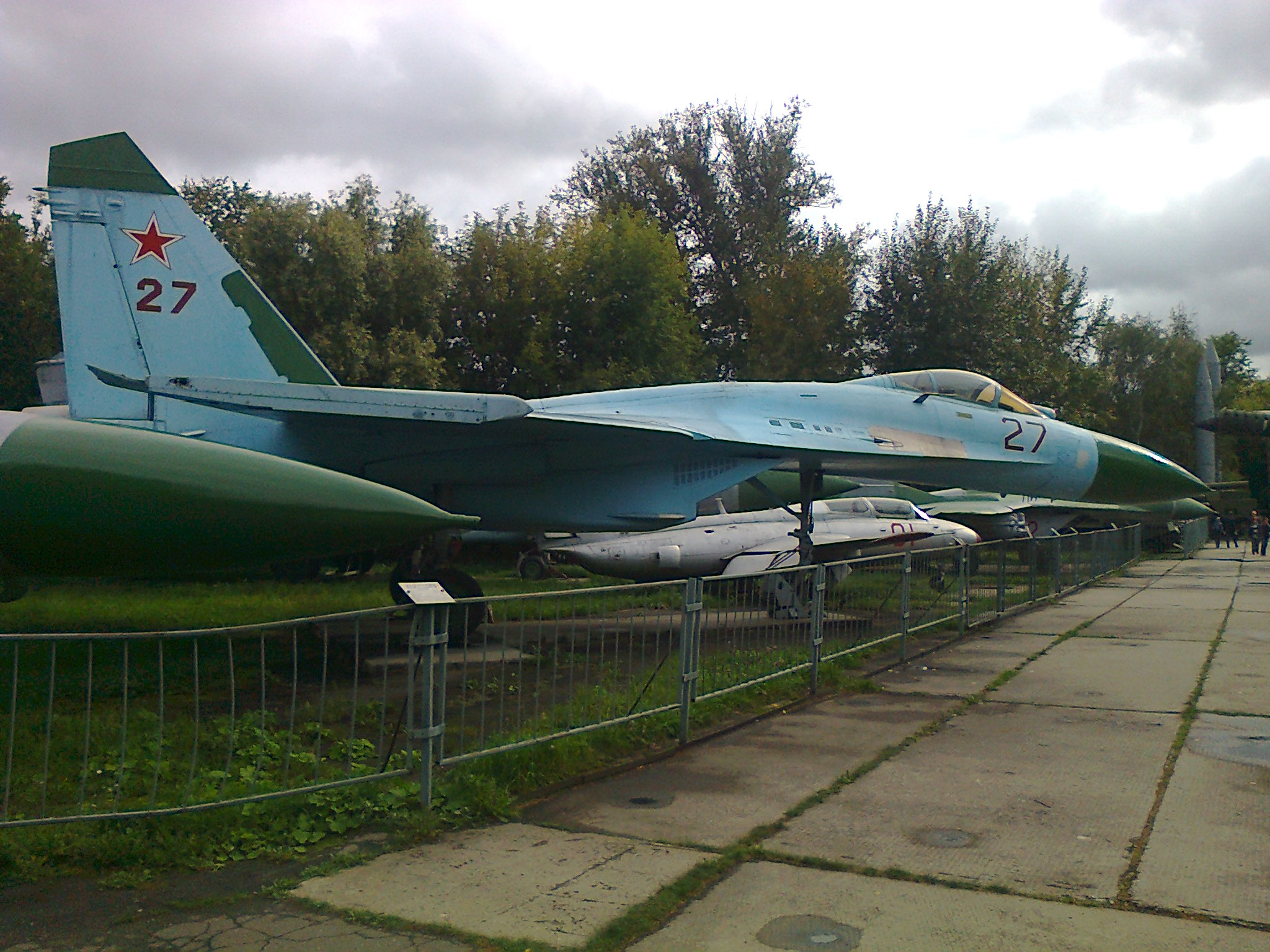 Su-27 Red 27 at Central Armed Forces Museum on 09.09.2012